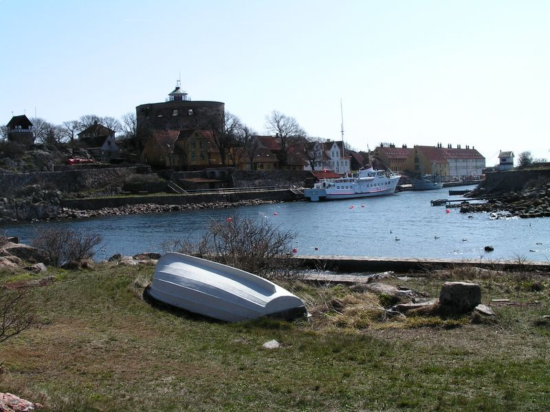 Christiansø